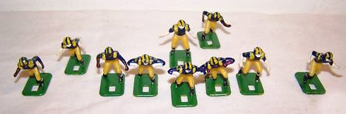 Electric football men. Rams